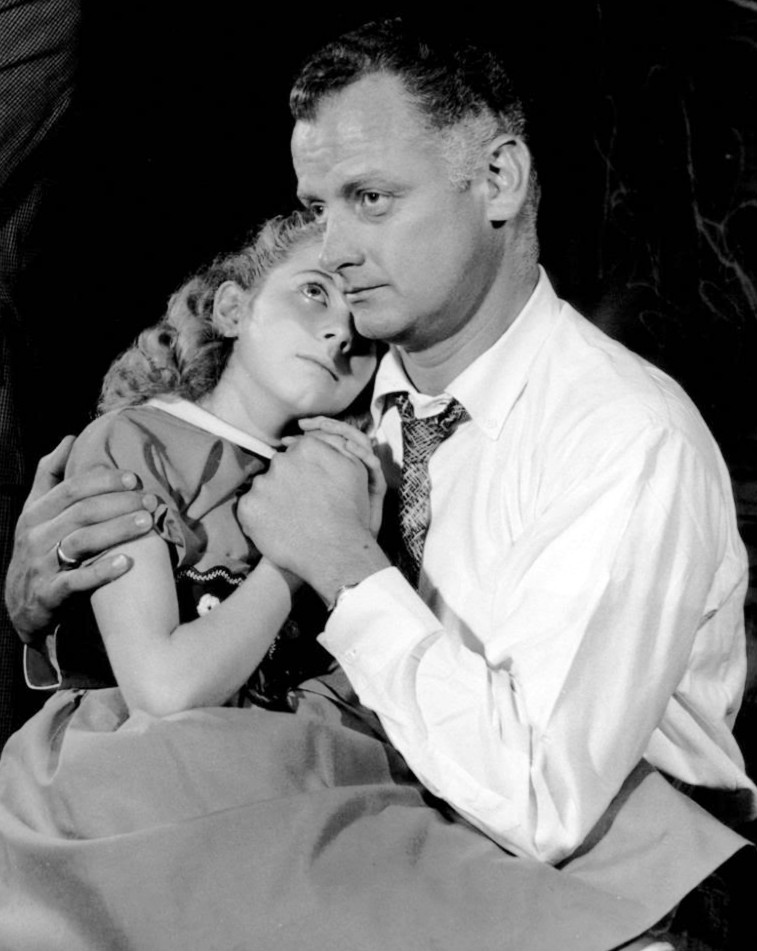 Photo of Art Carney and Beverly Lunsford from the Broadway play The Rope Dancers. This was Carney's first time on Broadway.